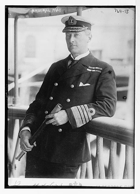 Photograph of Admiral of the Fleet Sir William May